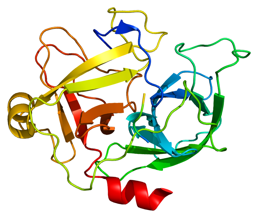 Structure of the MST1 protein. Based on PyMOL rendering of PDB 2asu.